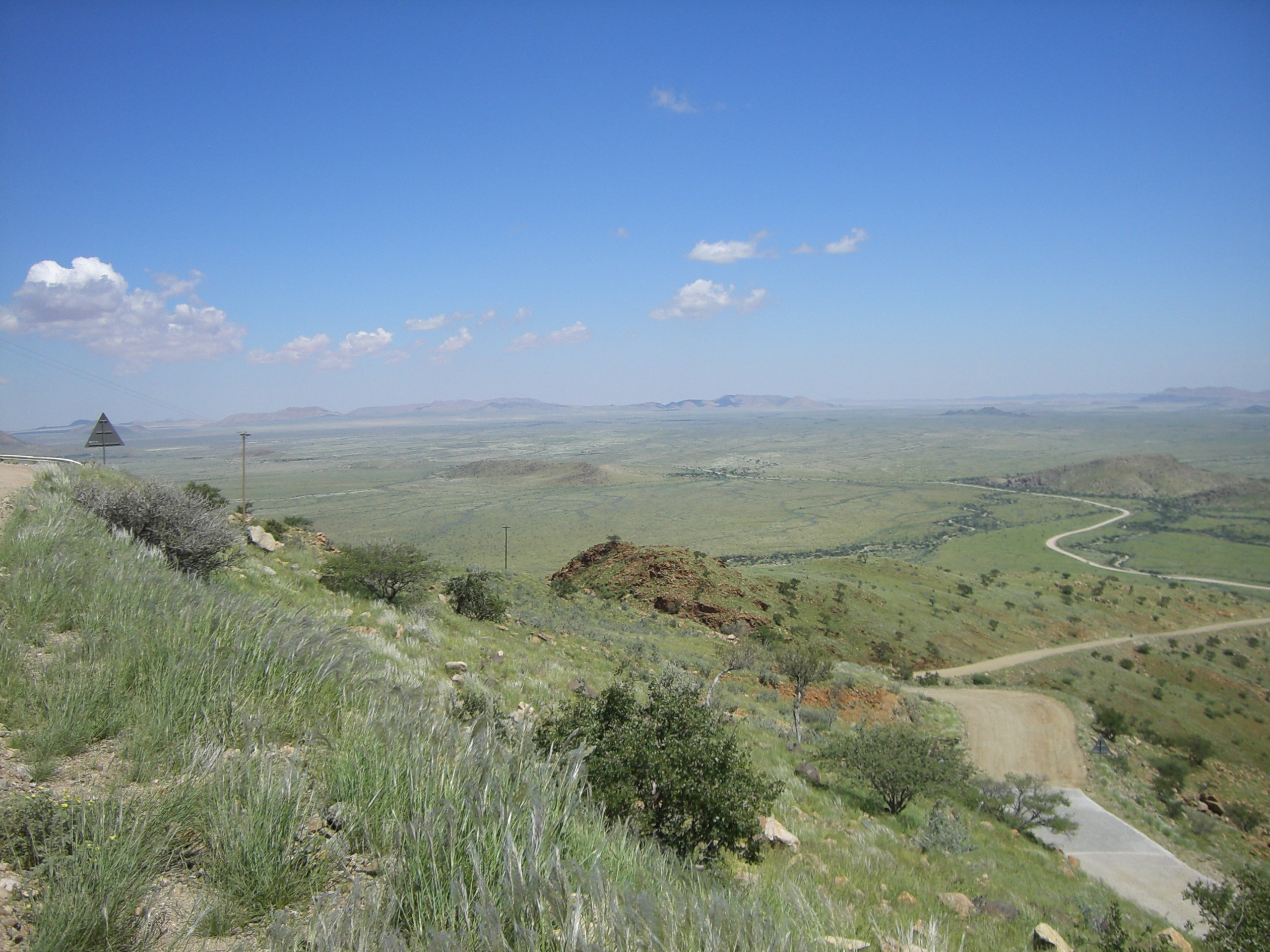 View from Spreetshoogte Pass westwards into the Namib desert during the record rainy season 2006. Picture taken halfway downhill.